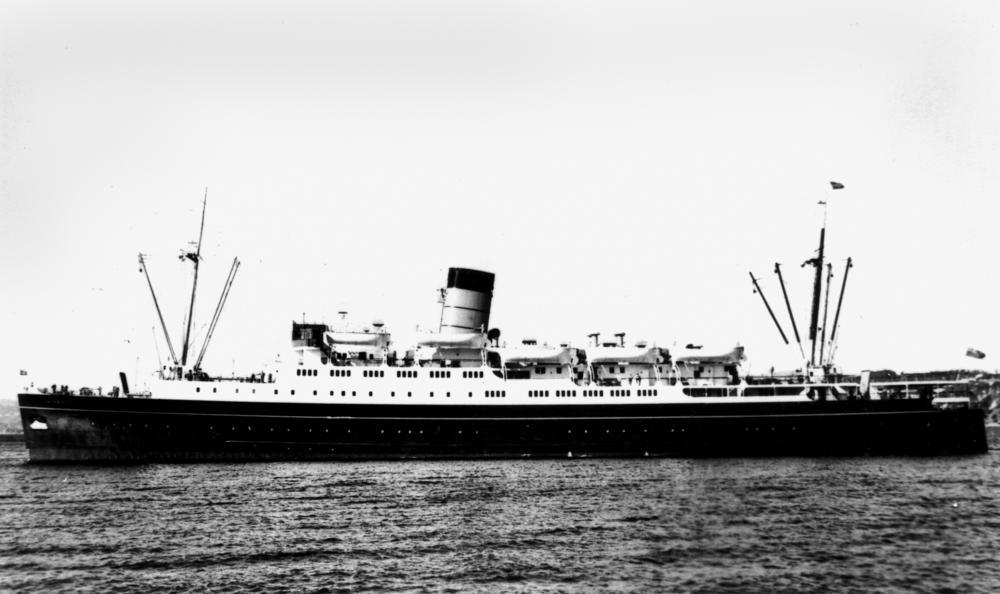 6,911 GRT turbo-electric passenger ship Hinemoa, built in 1946 by Vickers-Armstrong of Barrow, England, for the Union SS Co of New Zealand's Wellington – Lyttelton "Steamer Express" service. She was scrapped in 1971.